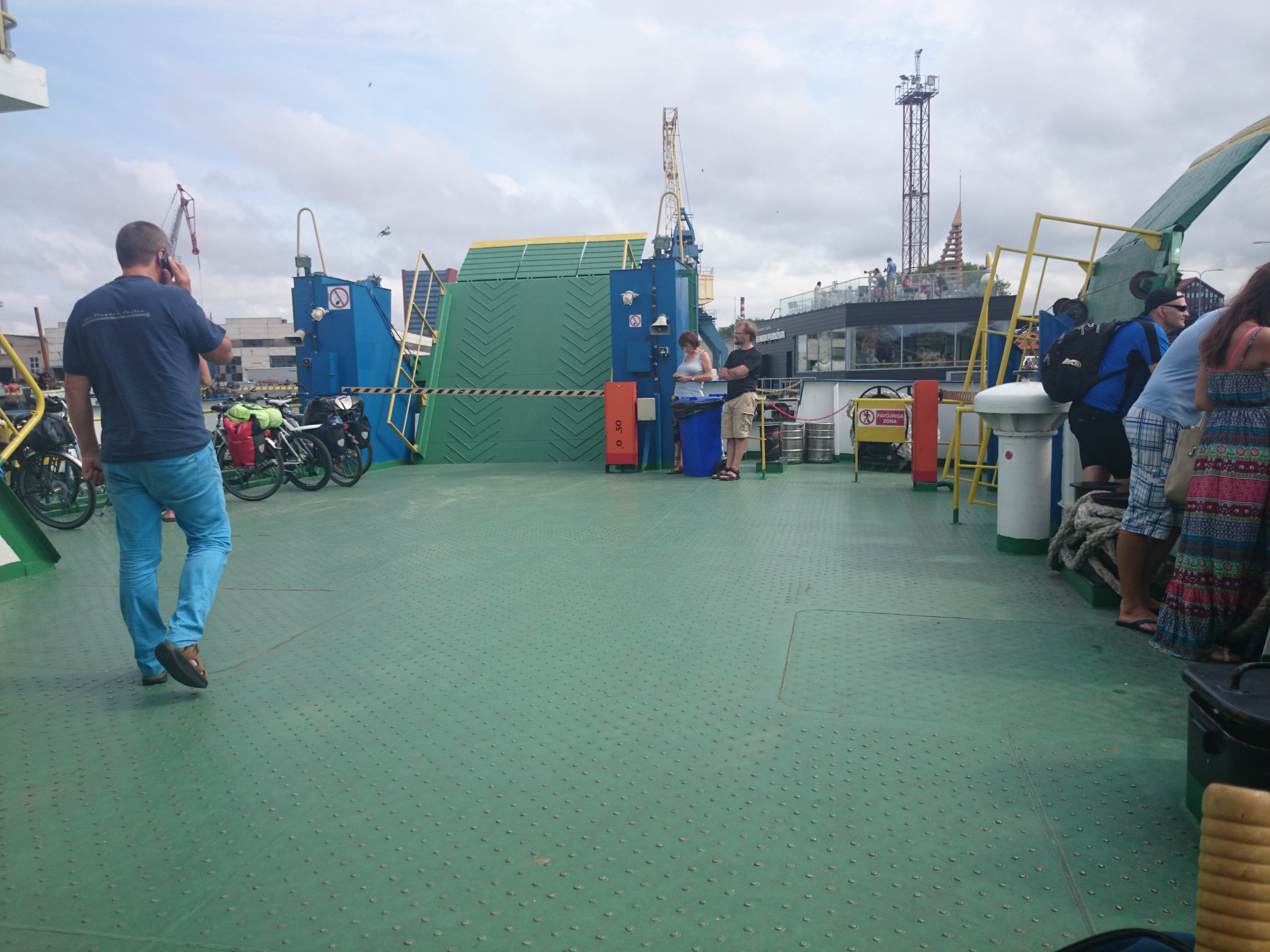 Senoji perkėla Klaipėdoje